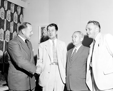 On his arrival from Djakarta, Indonesia, the president of the World Veterans Federation, Mr Vanderbilt was welcomed at Sydney's international airport by the President of the Australian committee of the WVF, Group Captain John Waddy (extreme left). On Mr Vanderbilt's right are Brigardier FB Hinton and Mr Hugh Will.